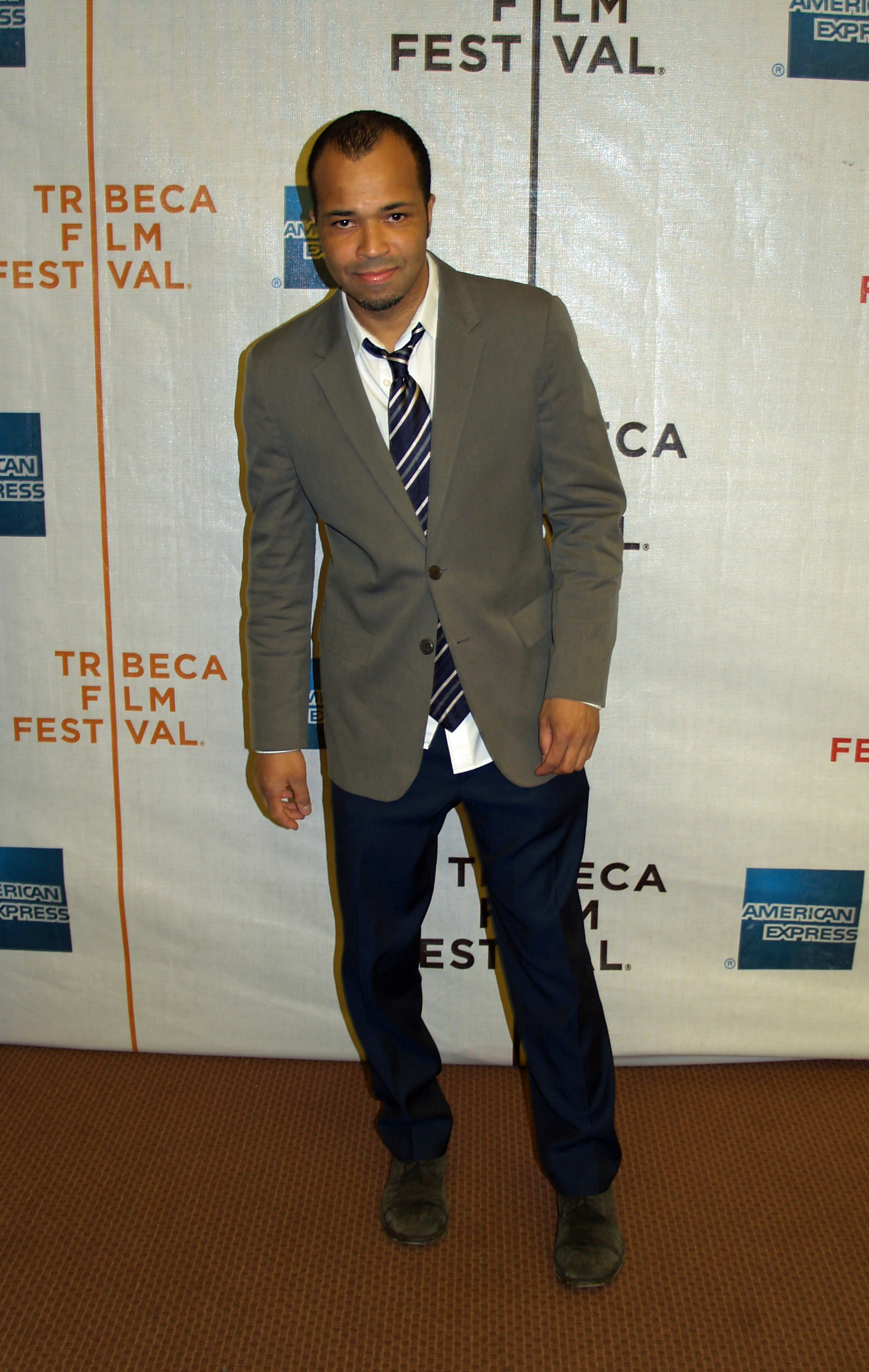 Jeffrey Wright